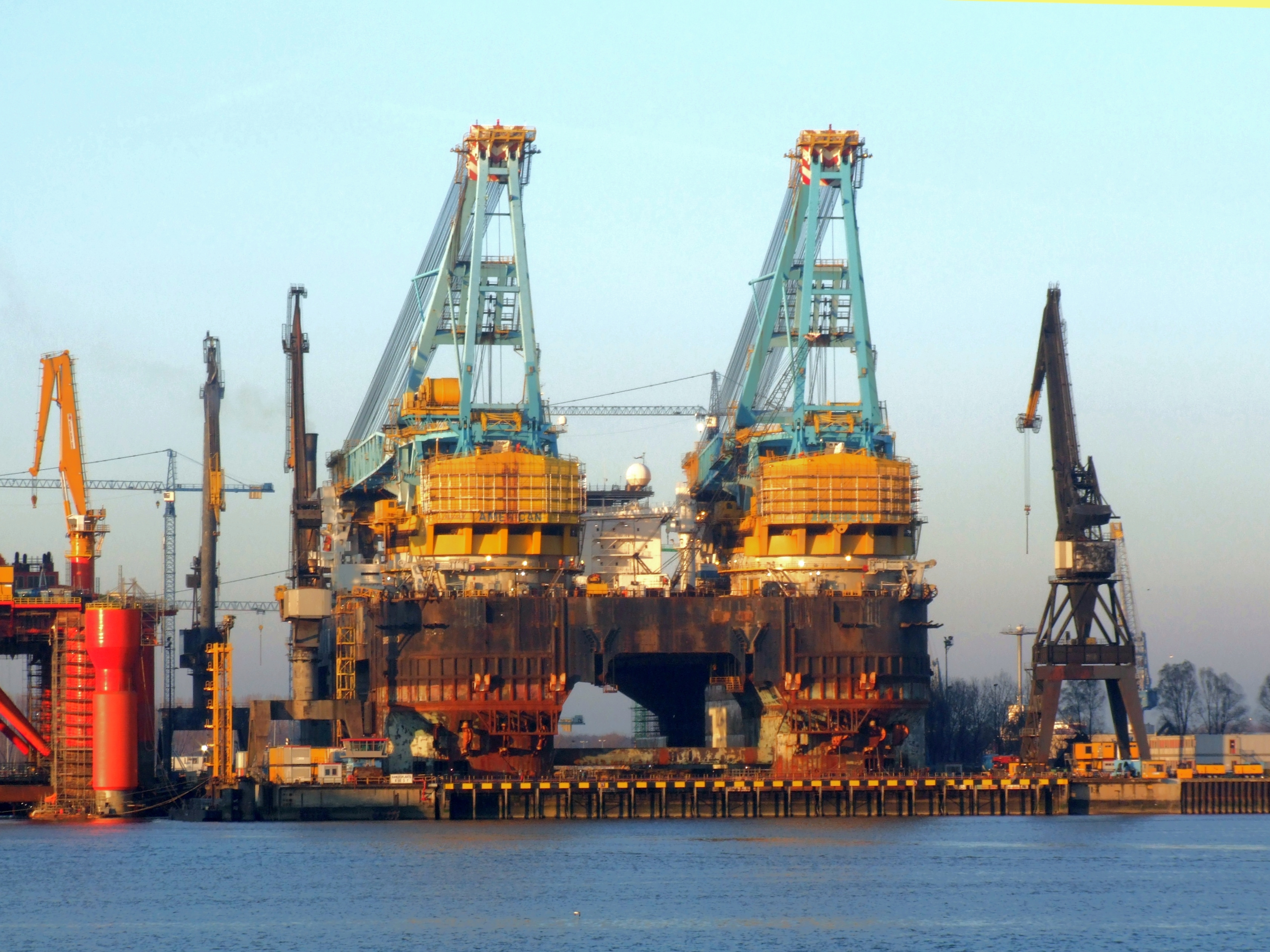 Photographed at the Port of Rotterdam, The Netherlands. IMO 8501567 - Callsign C6NO5